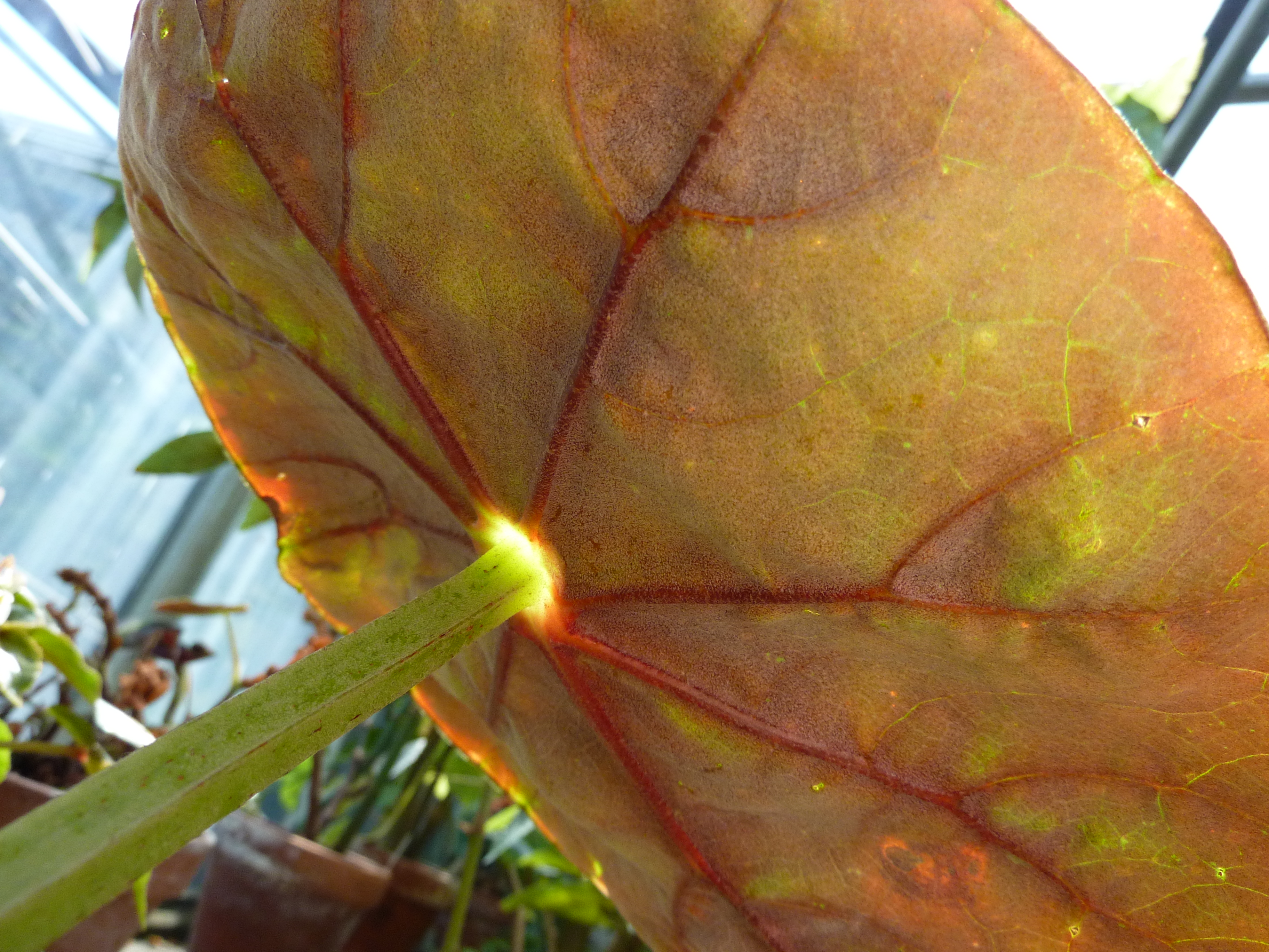 Begonia kautskyana, leaf, recto - Botanical garden of Ville de Paris - France